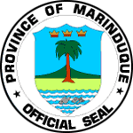 Provincial seal of Marinduque, Philippines.